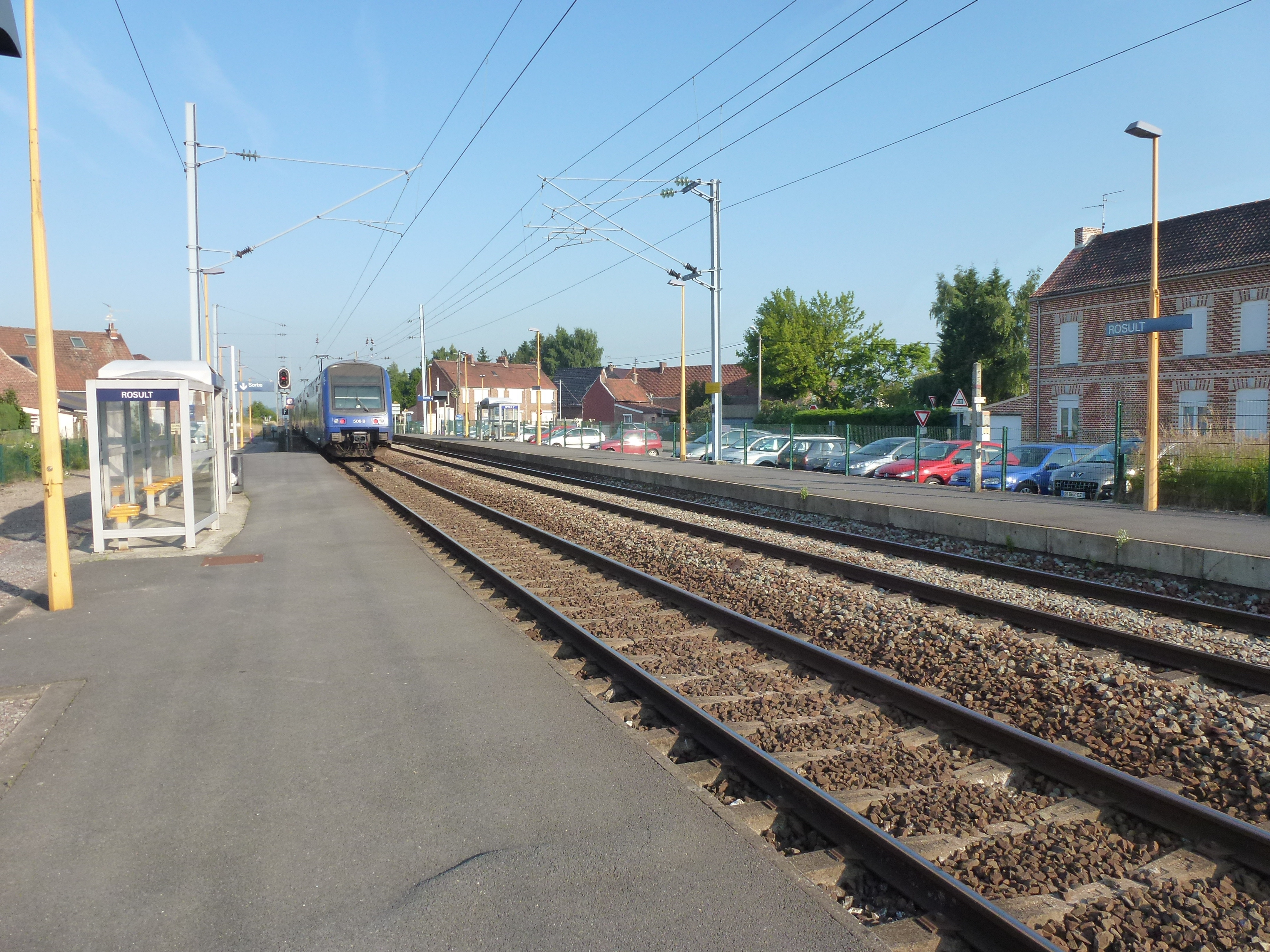 Rosult (Nord, Fr) la gare